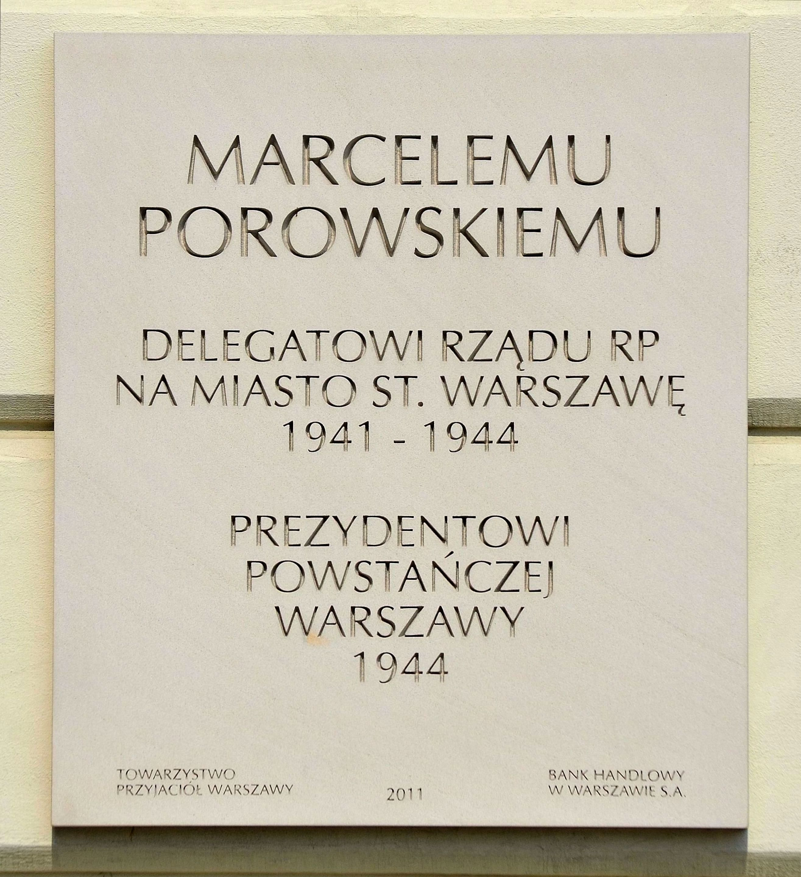 Plaque in memory of Marceli Porowski. Jabłonowski Palace in Warsaw